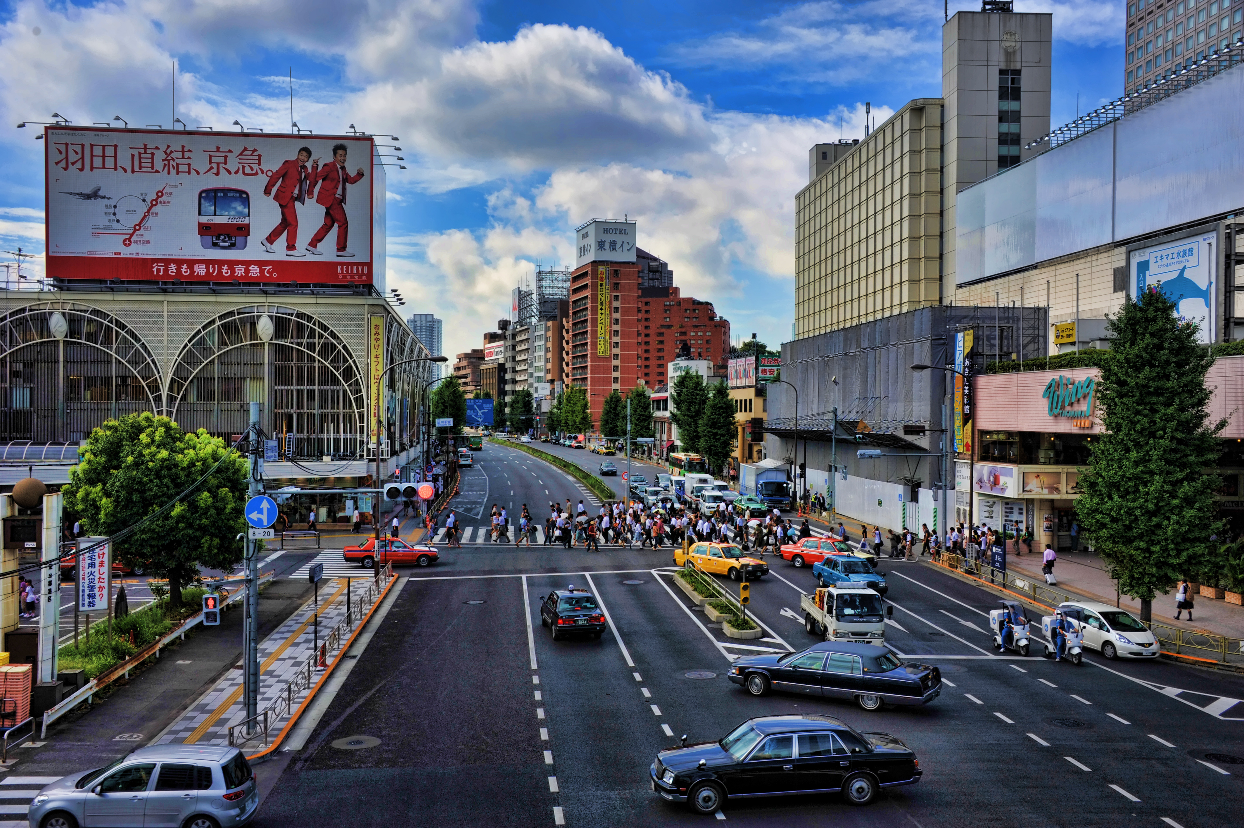 Shinagawa Station Tokyo Japan 2011